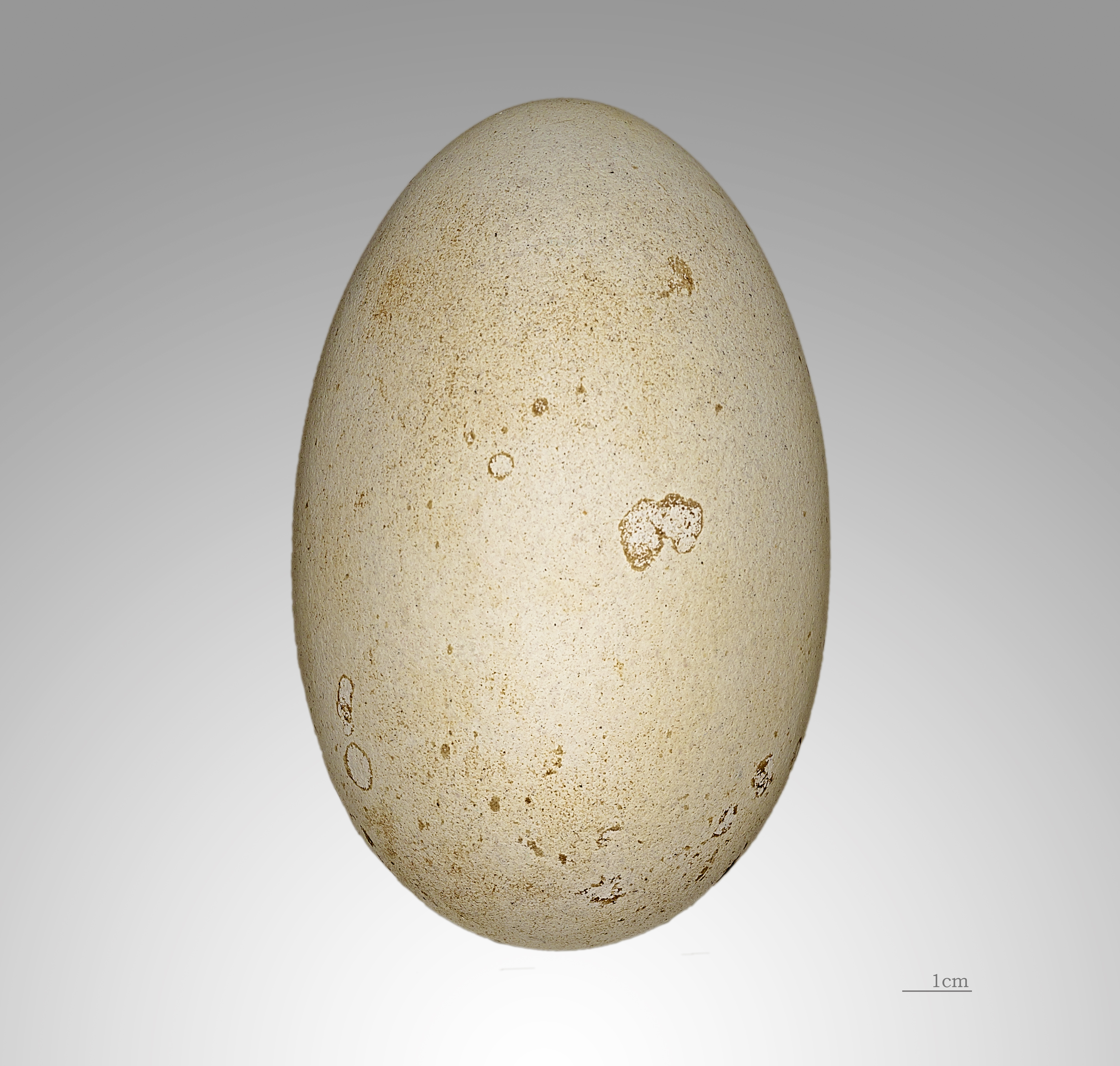 Egg of Black-browed Albatross. Collection of René de Naurois Jacques Perrin de Brichambaut.